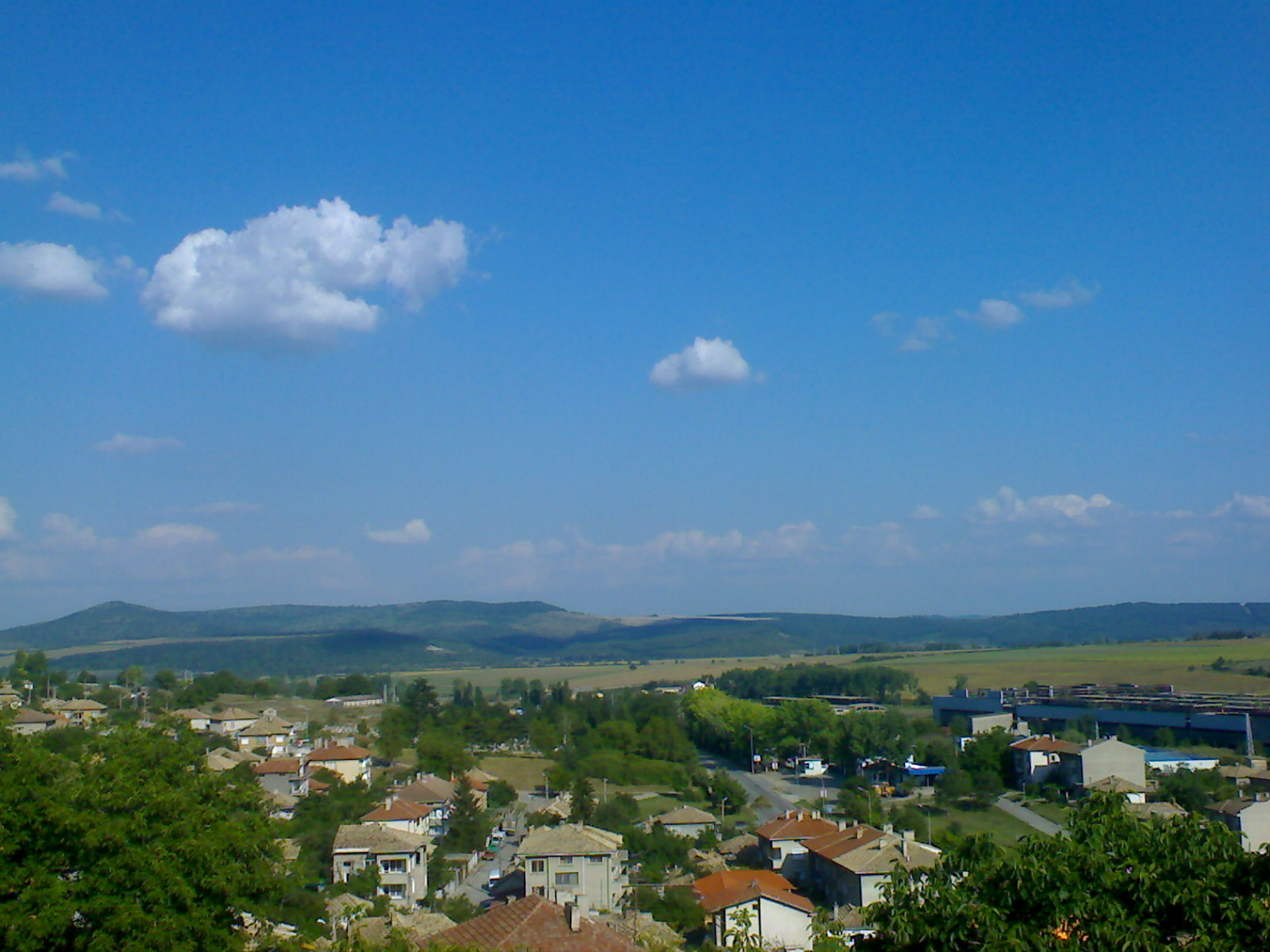 Popovo panoram